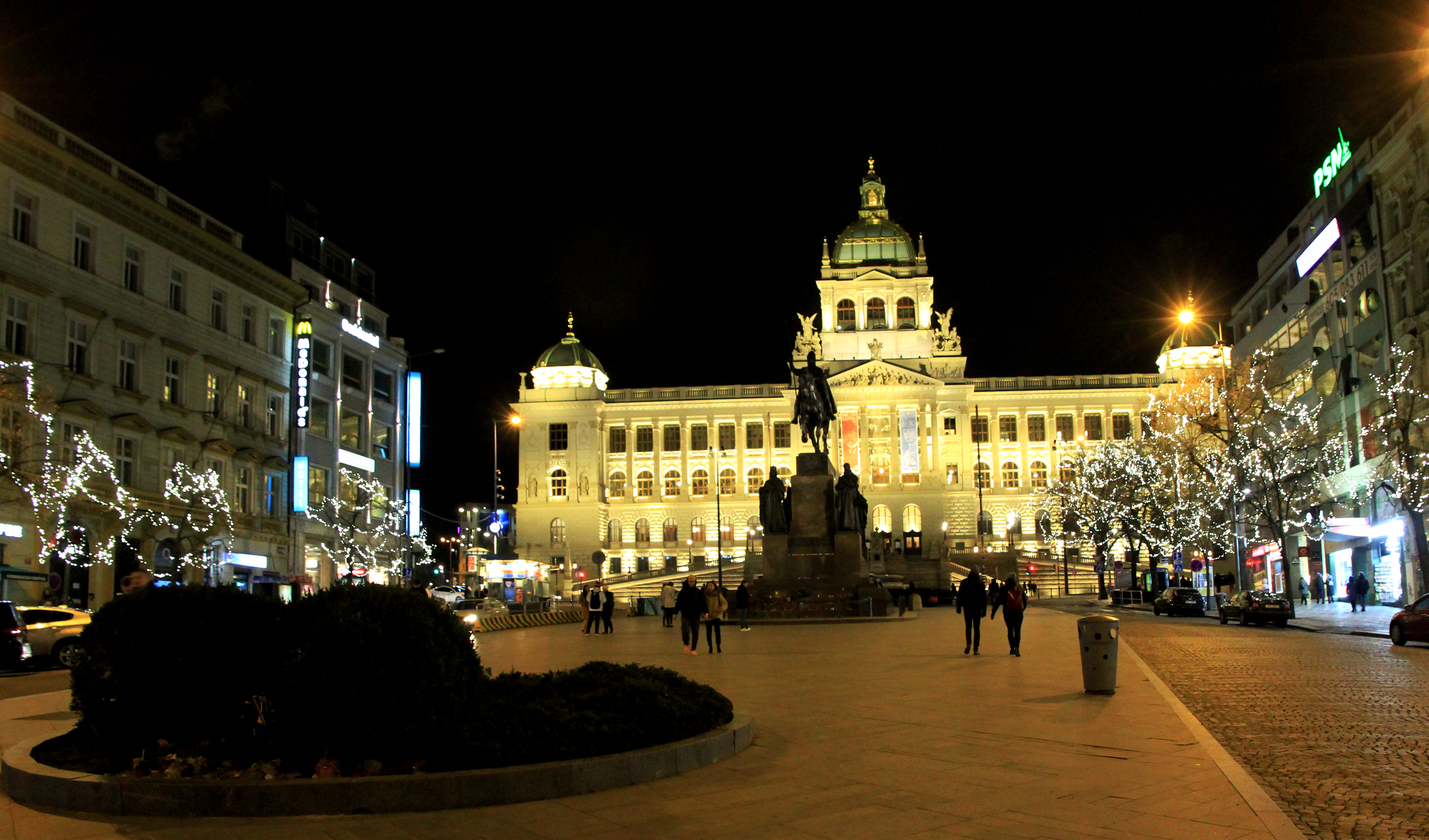 Christmas decorations of higher part of Wenceslas Square and iluminateg National Museum, Prague, Czech Republic 2018